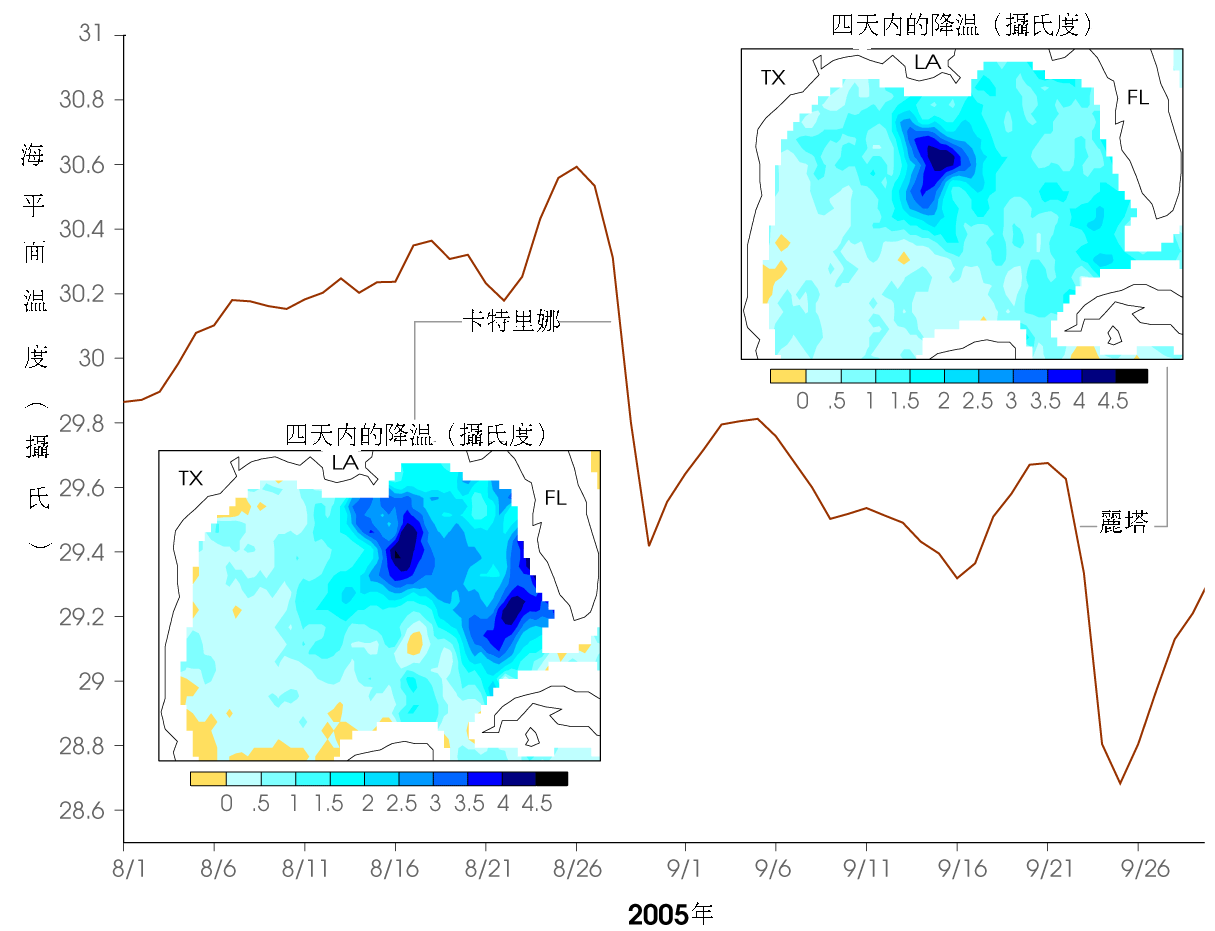 Chart showing drop in water temperature of the Gulf of Mexico as Hurricanes Katrina and Rita passed over.